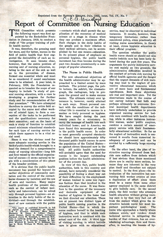 Cover of the "Goldmark report" about nursing education. Printed on 1922